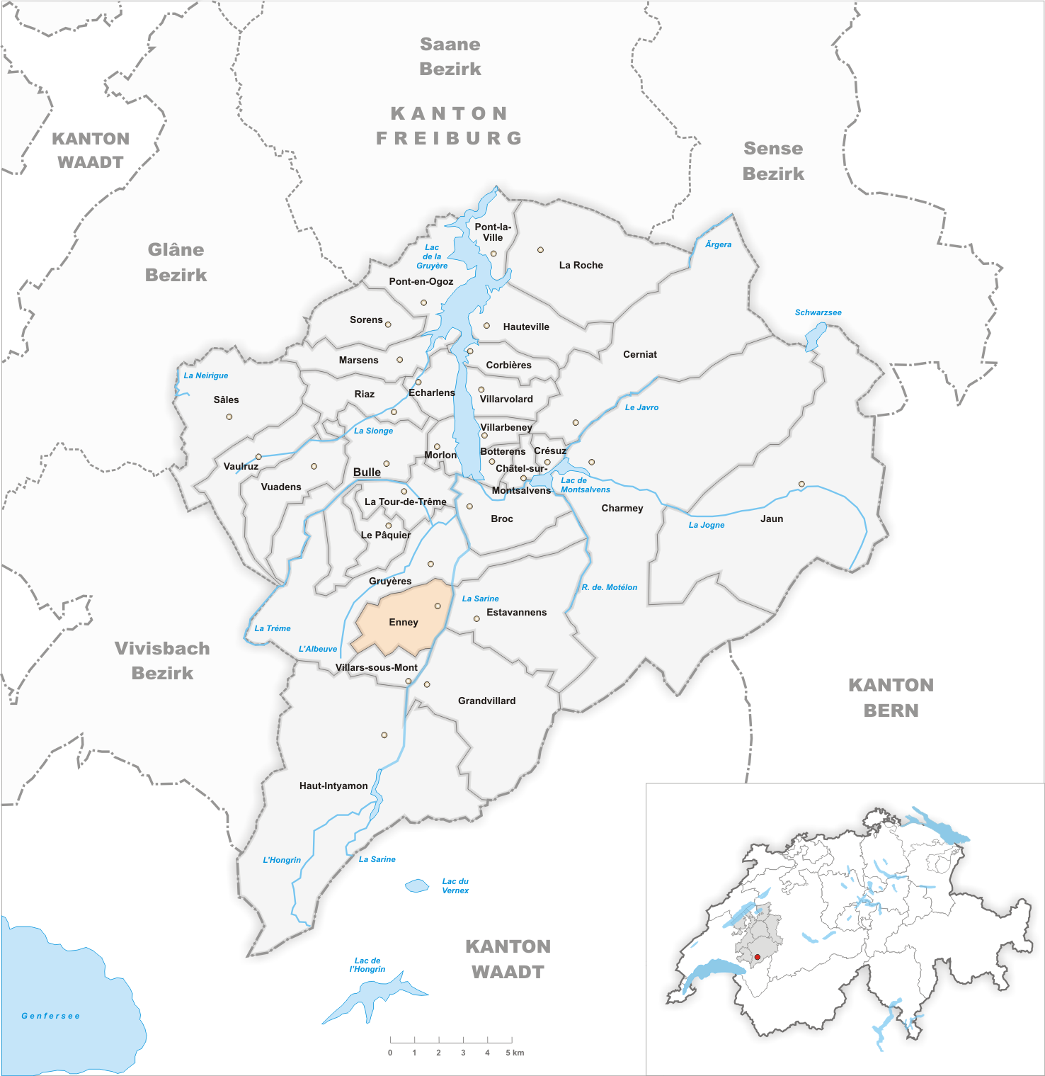 Municipality Enney Artist: Tschubby